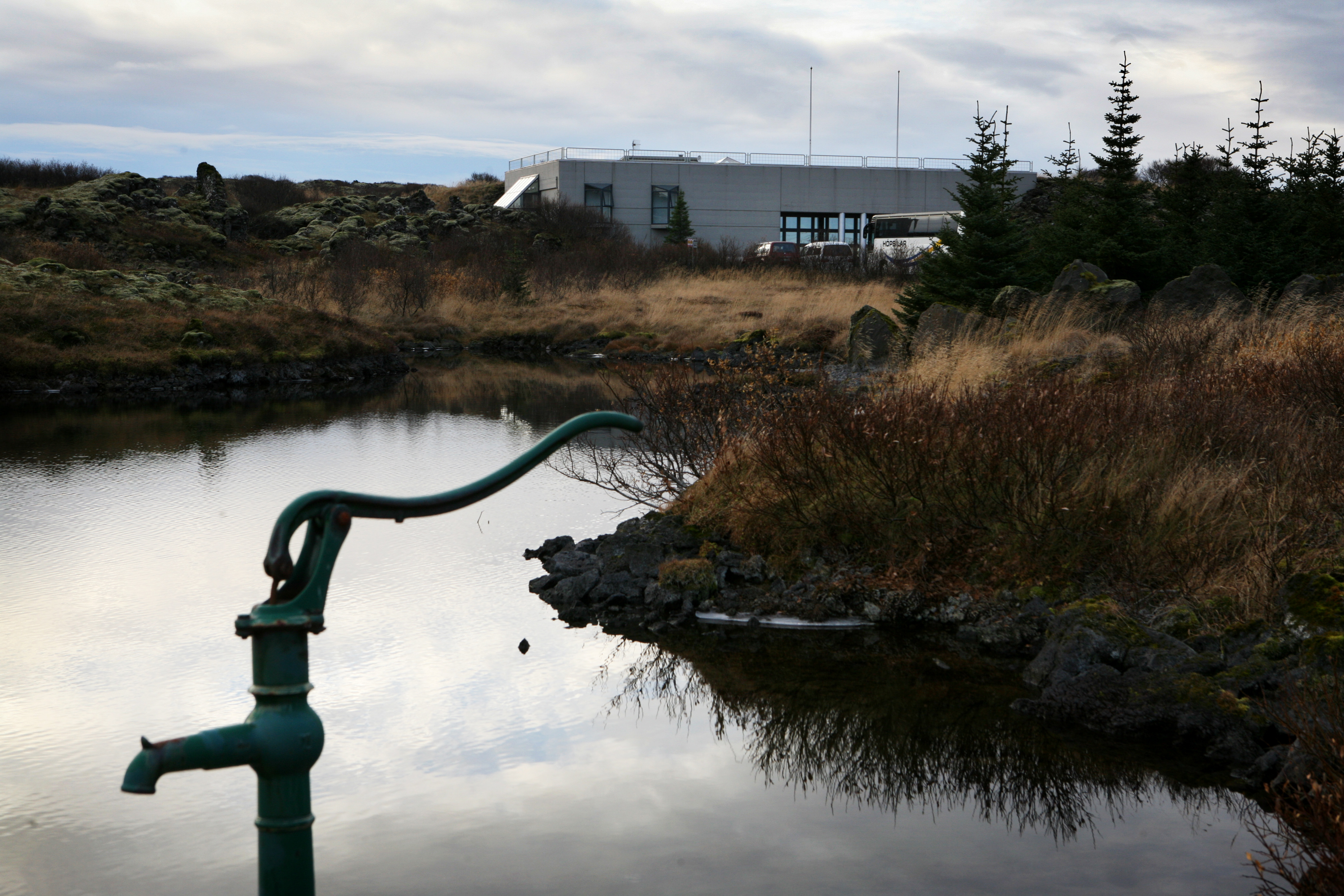 Vattenverket Gvendarbrunnar utanför Reykjavik Keywords: Energy, Climate, Environment, Iceland